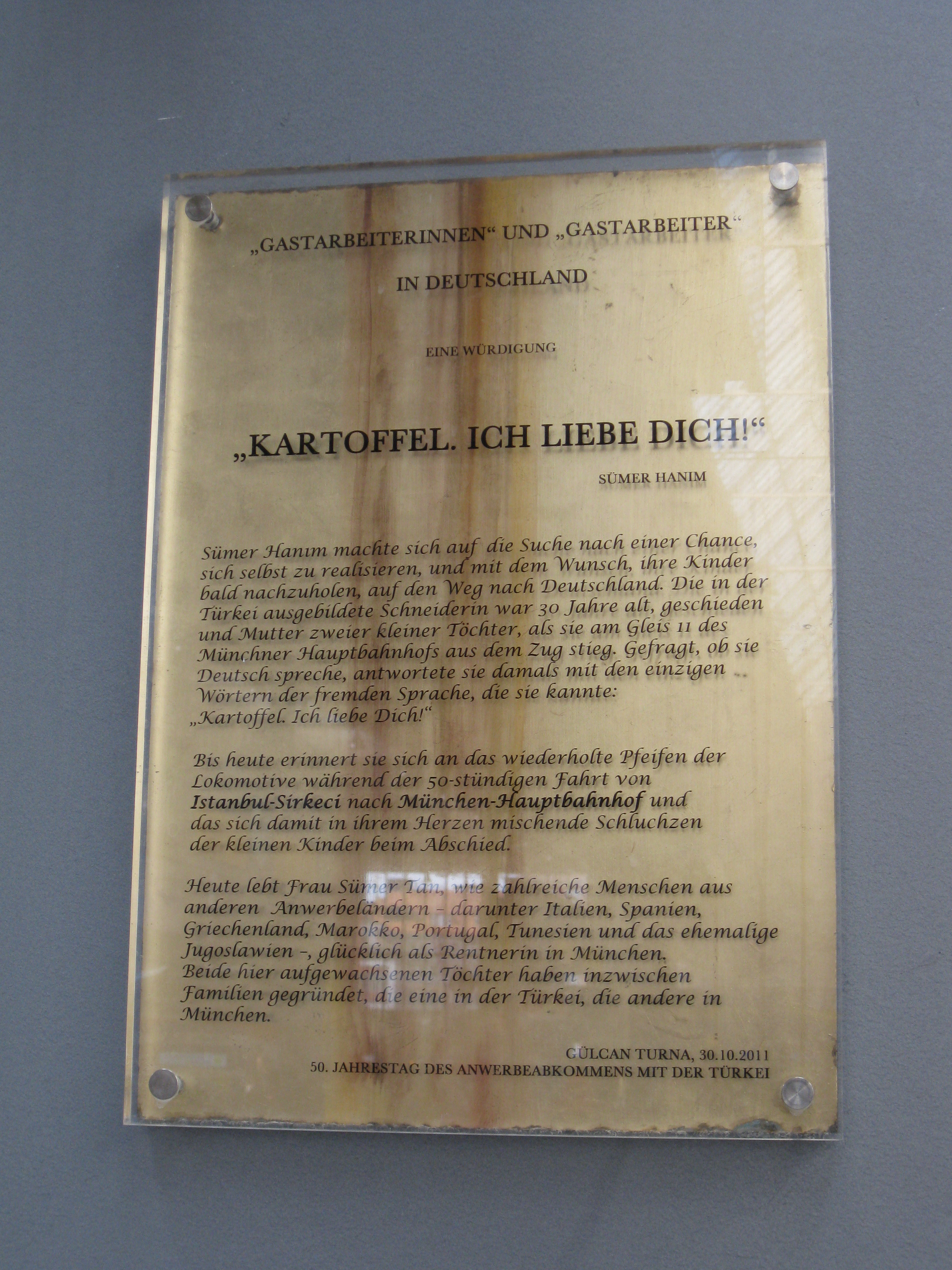 Commemorative plaque for the "Anwerbeabkommen" in 1961, that brought hundred thousands of migrant workers from Turkey to Germany